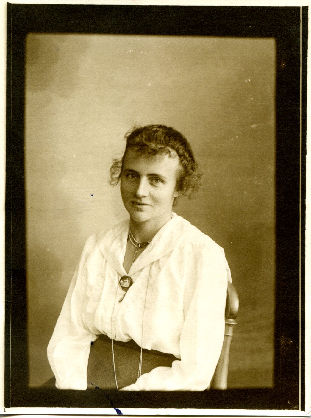 Natalie Paul (b Brehmer) as a young woman